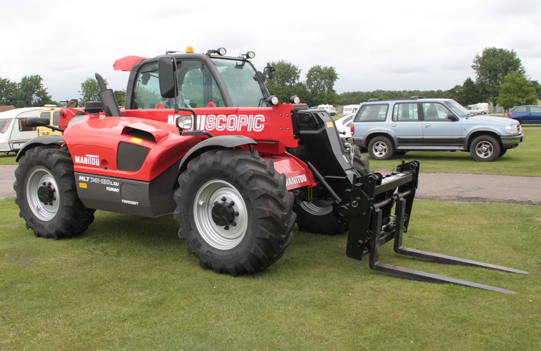 A Manitou MLT 741-120 LSU Turbo telehandler seen at the East of England Show 2010, Cambridgeshire, England